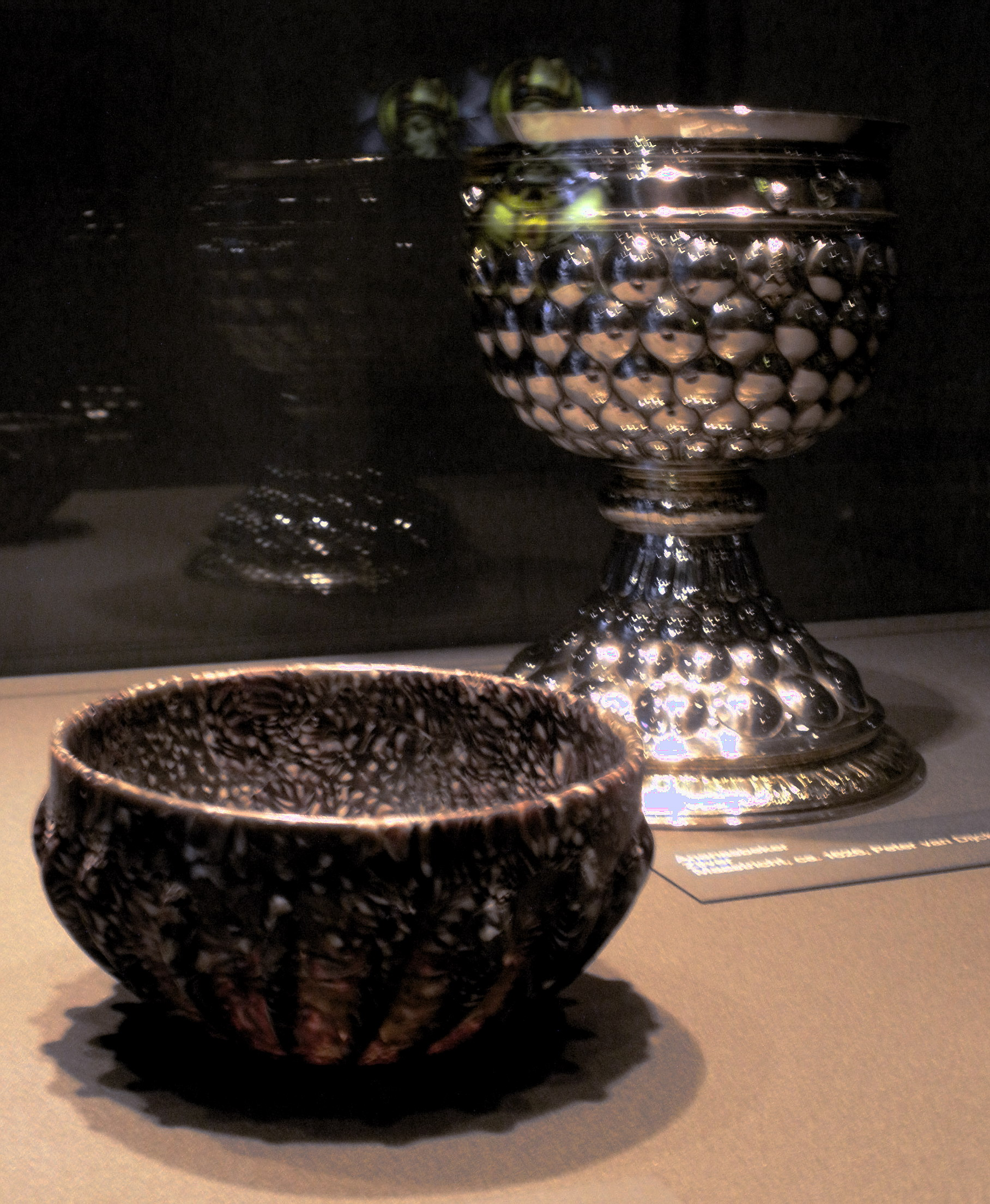 First century Roman cup made of ribbed purple marbled glass, said to be the cup of Saint Servatius, one of the so-called 'Servatiana' in the Treasury of the Basilica of Saint Servatius, Maastricht, Netherlands. The silver 'pinapple' cup was made by Petrus van Dijck in 1626/27 to hold the cup of Saint Servatius.